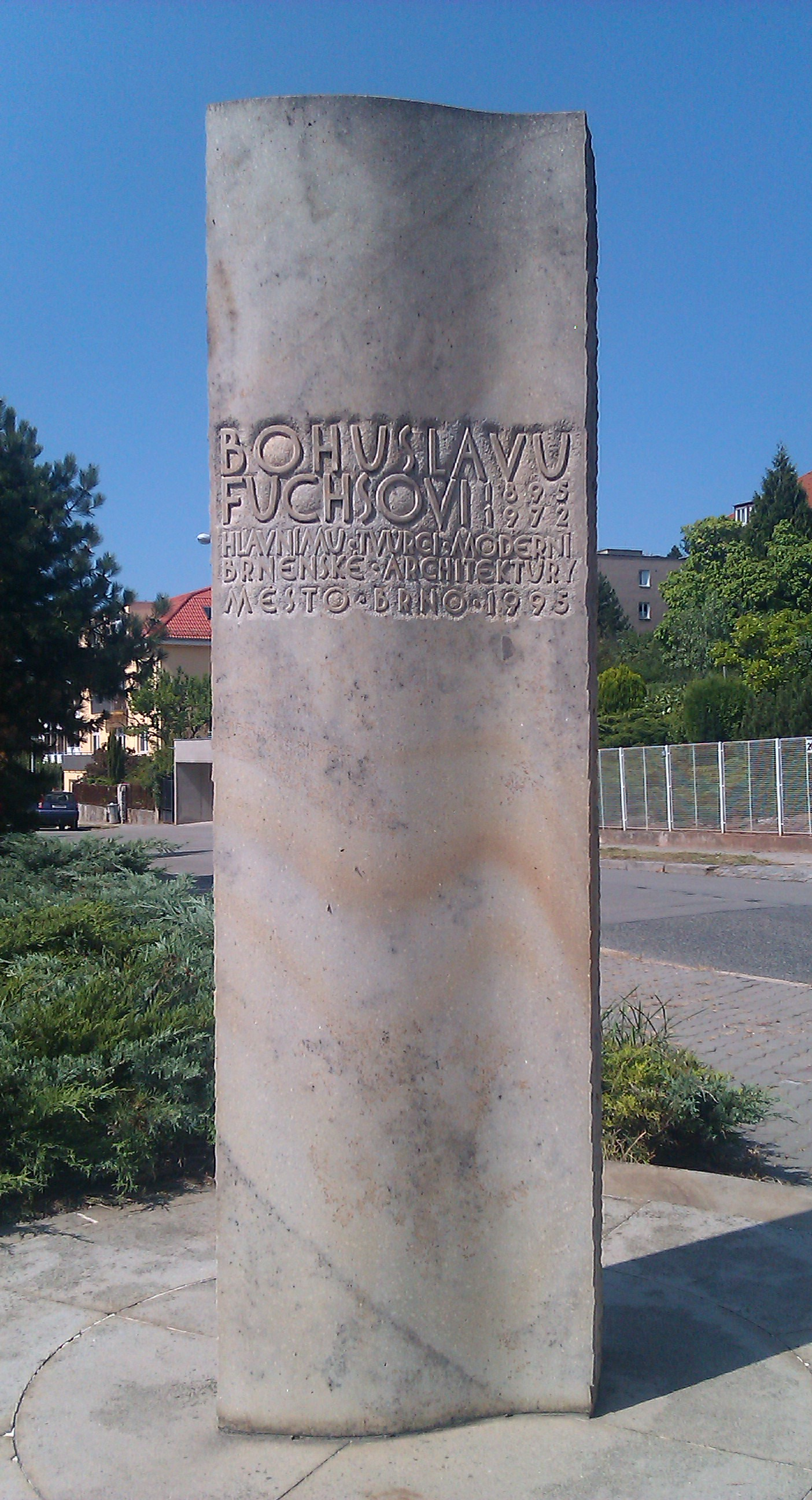 Memorial of architect Bohuslav Fuchs in Brno on the intersection of Neumannova and Lipová streets.